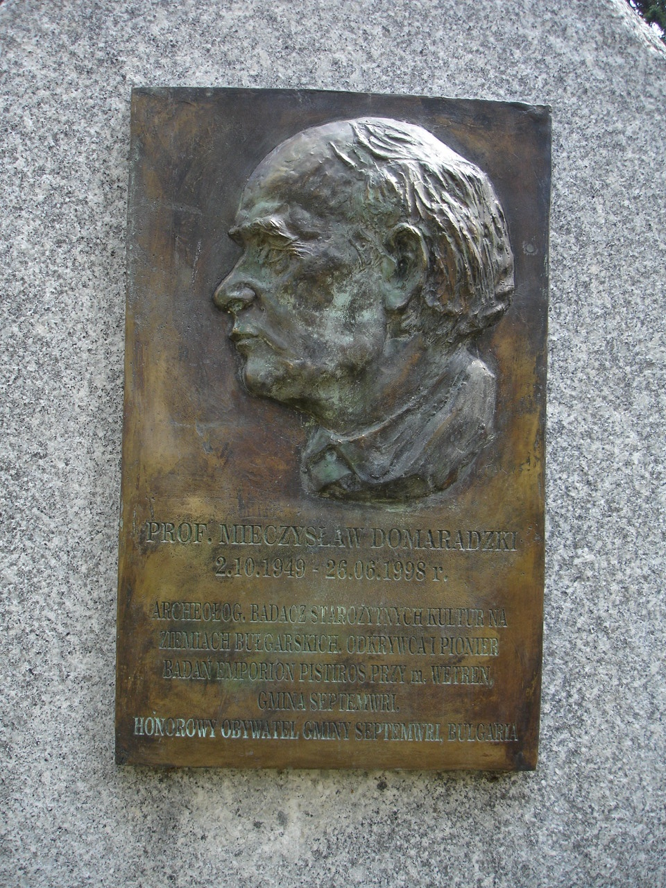 Mieczysław Marian Domaradzki - polish archeologist